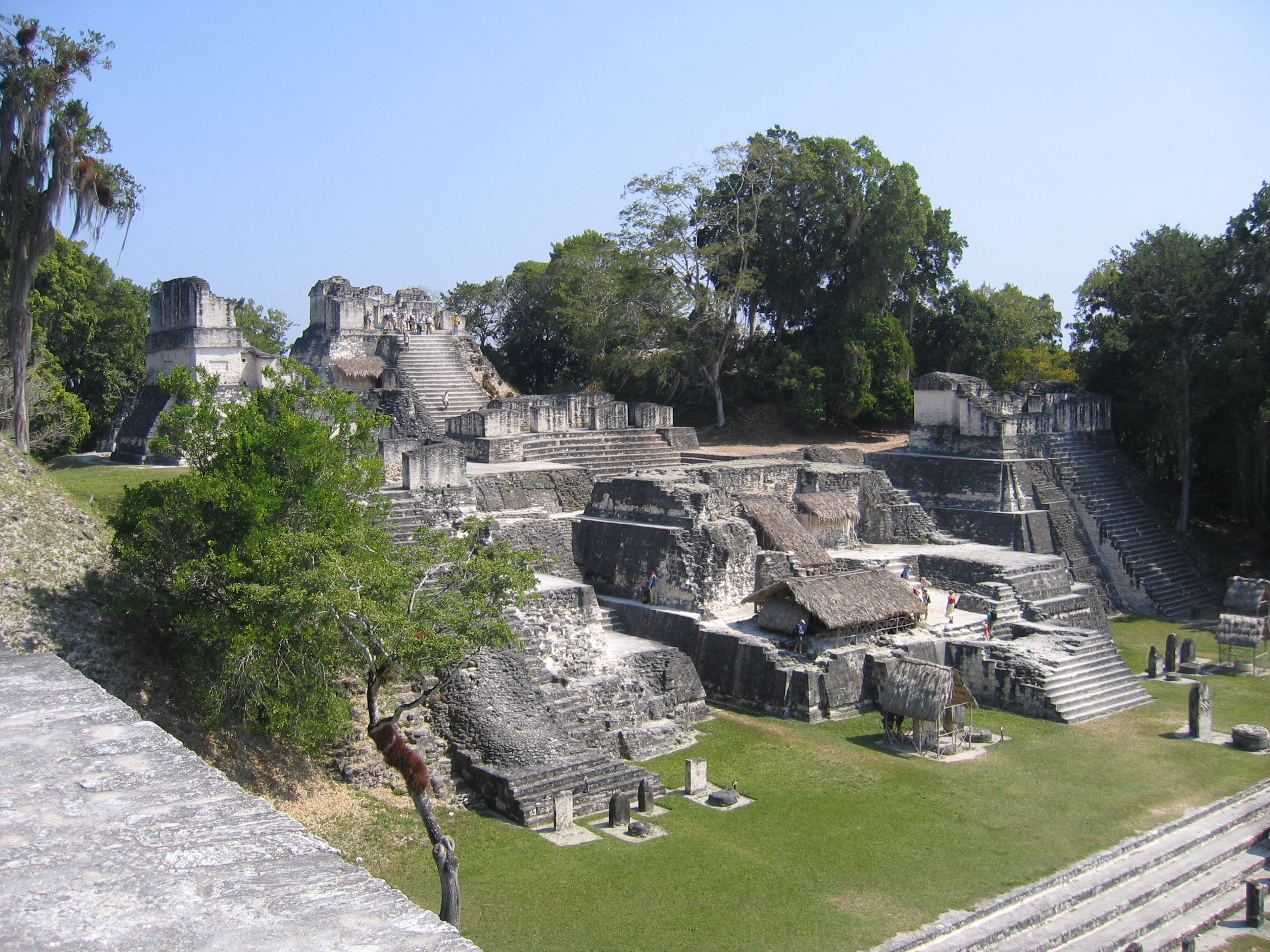 North Acropolis in Tikal, Guatemala